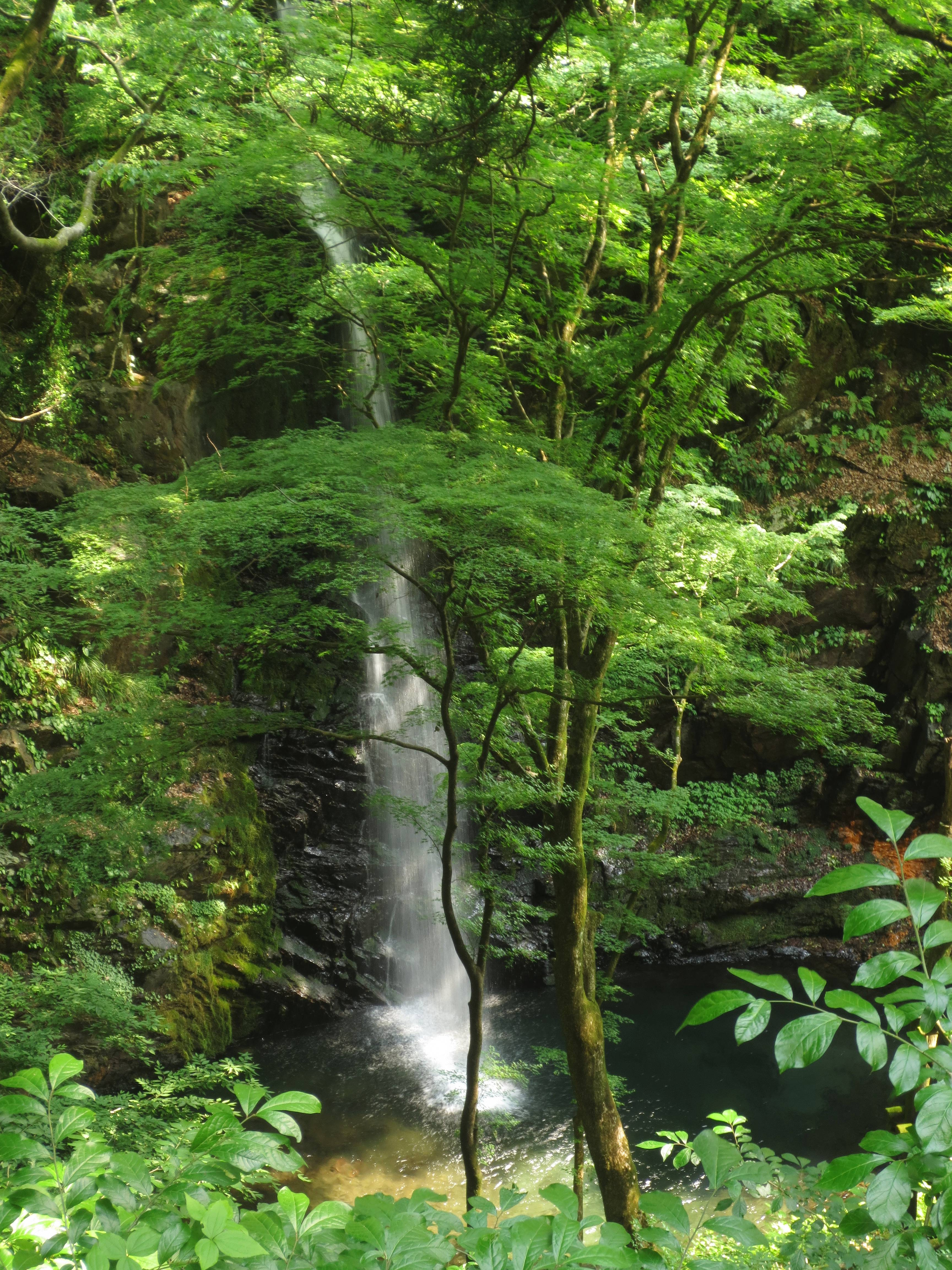 Fudo Falls (Midori, Gunma).